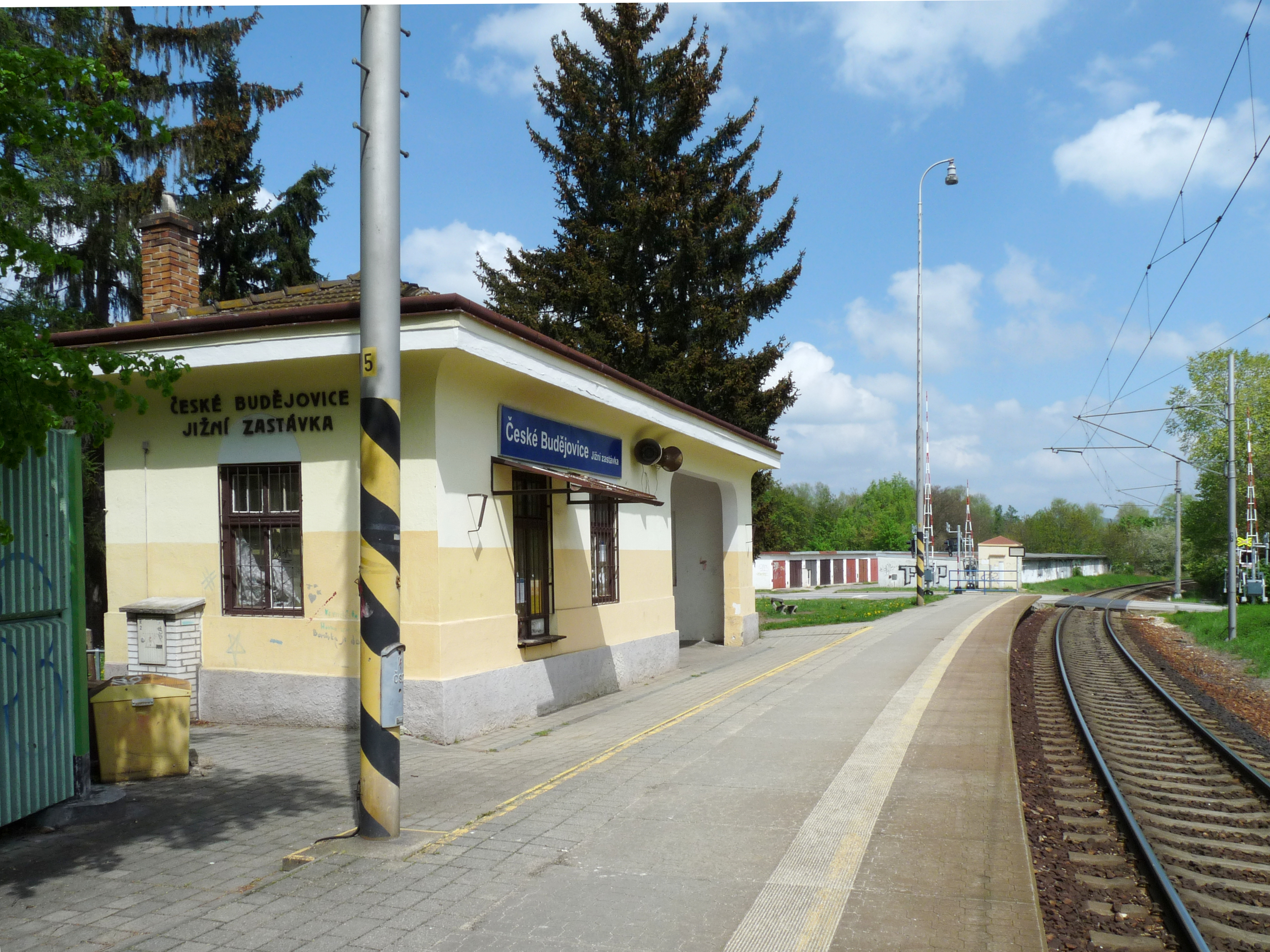 České Budějovice jižní zastávka, a train station in the city of České Budějovice, South Bohemian Region, Czech Republic.